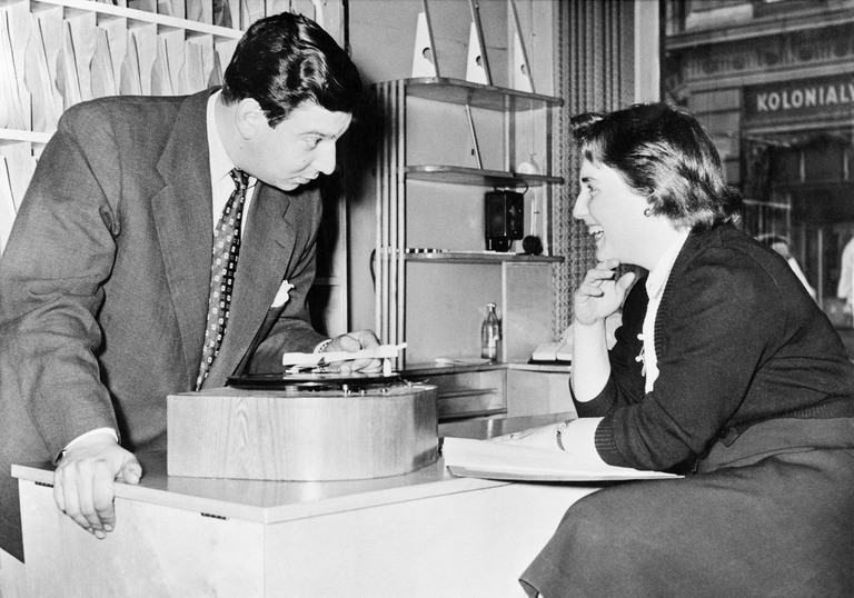 Photograph of the Finnish Jazz musician Herbert Katz (1926–2007).